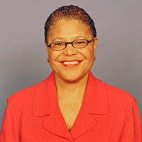 Karen Bass, member of the United States House of Representatives.